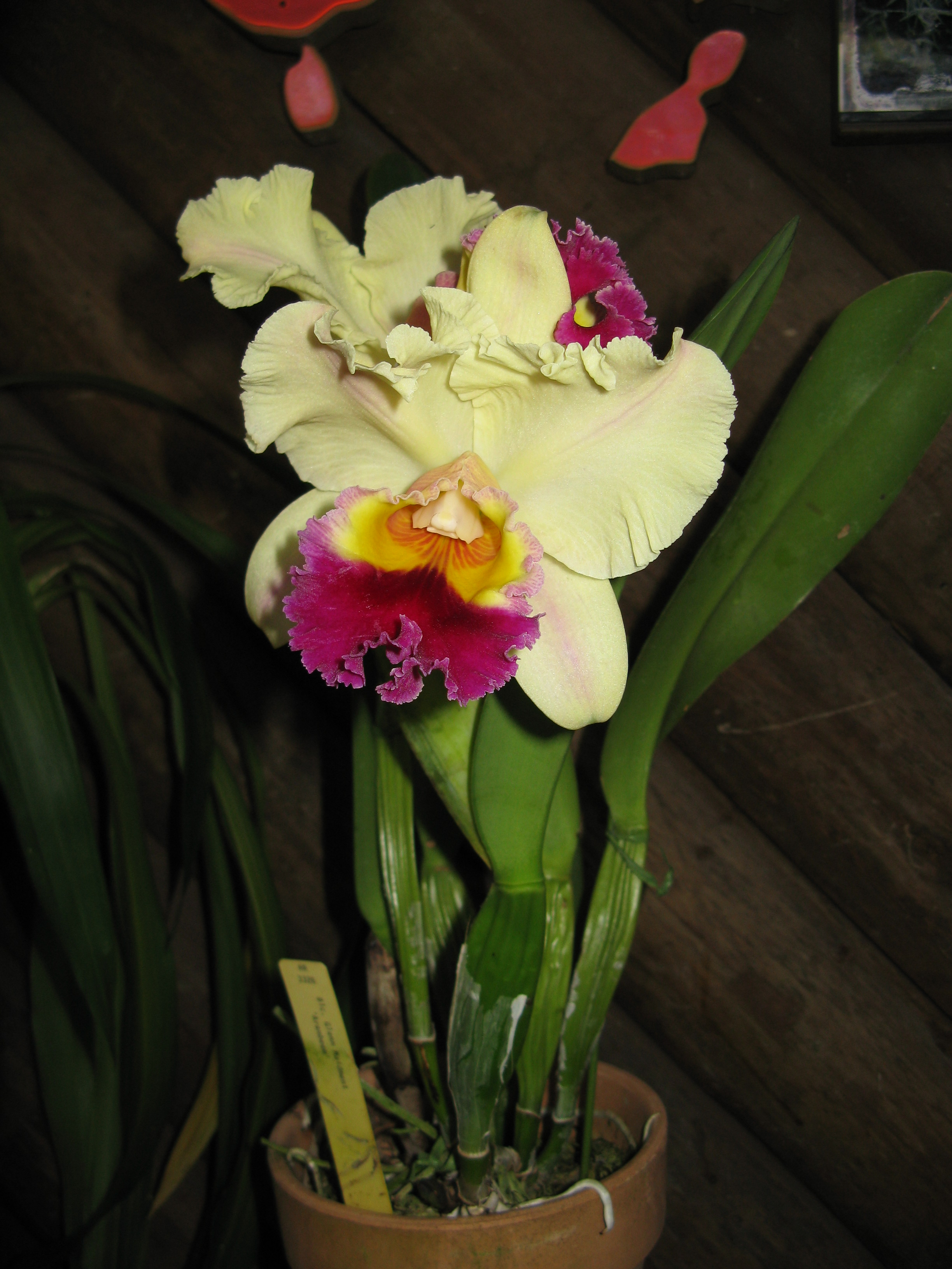 Brassolaeliocattleya Glenn Maidment 'Aranbeen' Place:Osaka Prefectural Flower Garden,Osaka,Japan